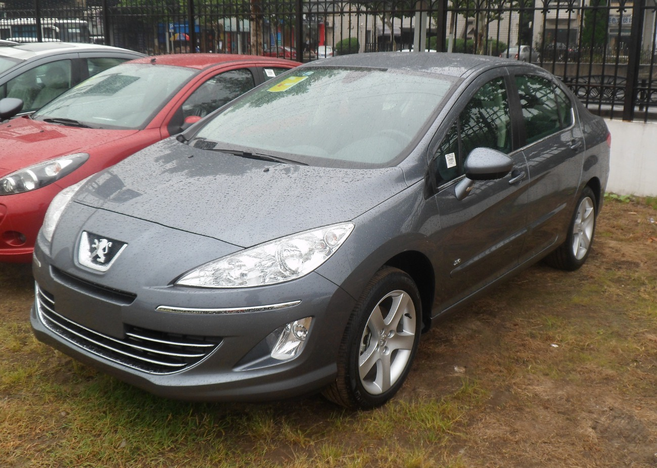 Peugeot 408 photographed in Shanghai, China.